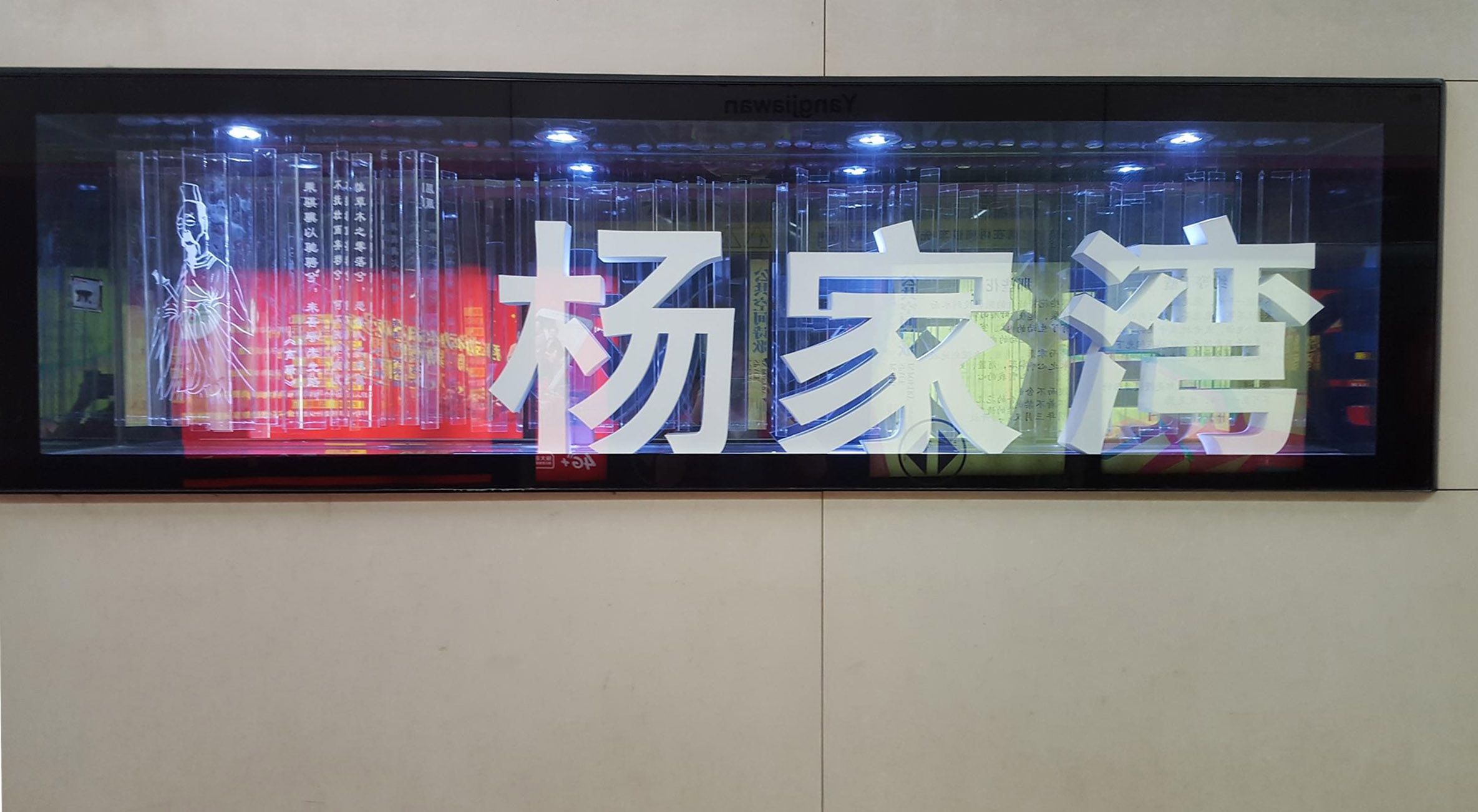 Name Box of Yangjiawan Station